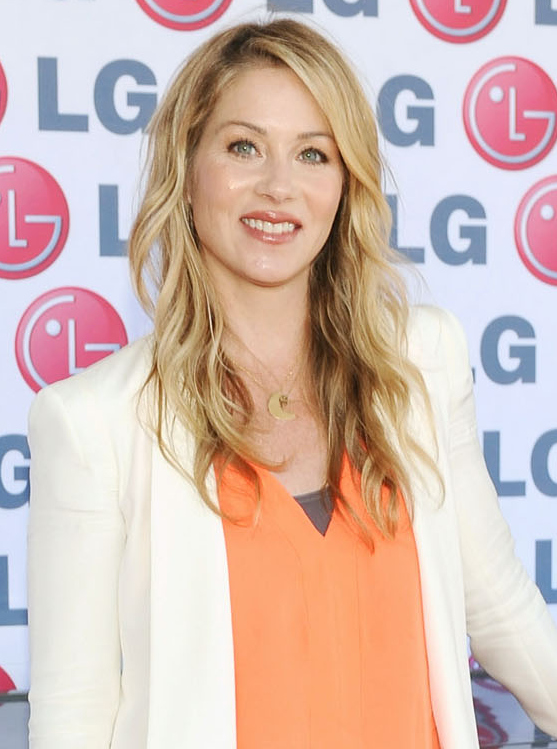 Christina Applegate at the LG Washing Machine Drum, "The Happiness of the United States 150 Million Women Keeper!" in June 2012.